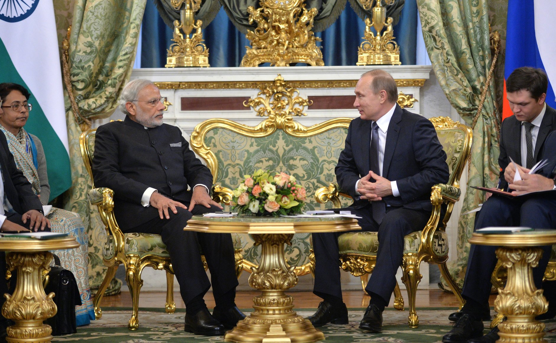 Vladimir Putin had talks in the Kremlin with Indian Prime Minister Narendra Modi, who is in Russia on a two-day official visit.